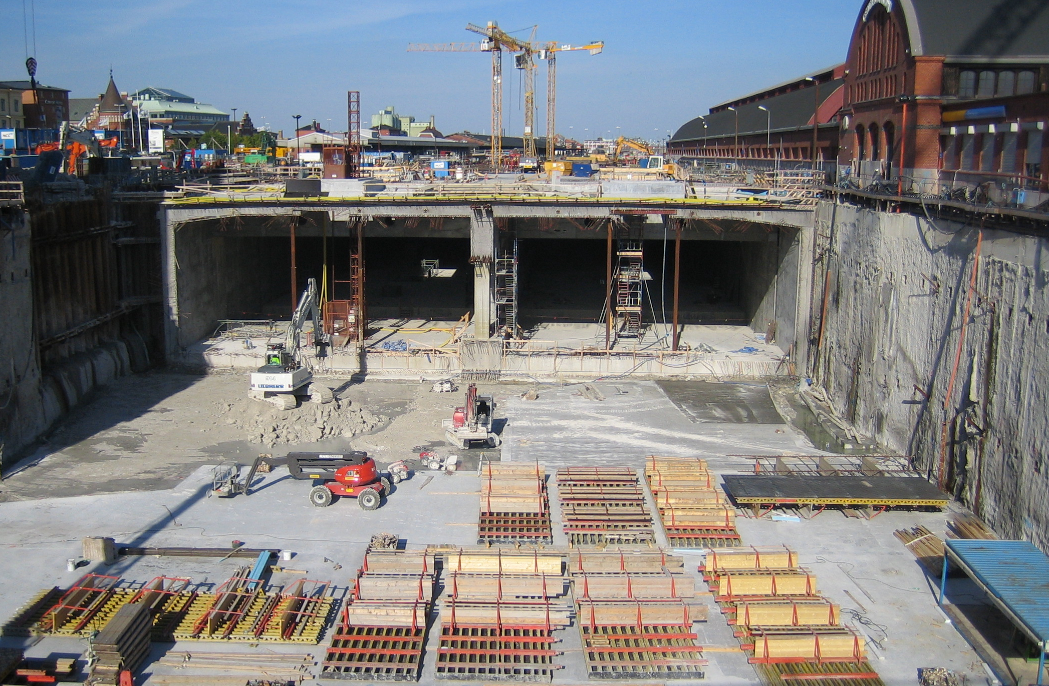 Citytunneln by Malmö Central Station